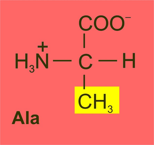 Alanine amino acid formula jpg